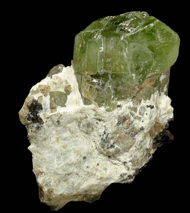 Forsterite Locality: Sapat Gali (Soppat; Suppat; Sumpat), Manshera, Naran-Kagan Valley, Kohistan District, North-West Frontier Province, Pakistan (Locality at ) A large peridot crystal, 2.6 cm across, on matrix. It is contacted around the sides but nice and unusually gemmy on top. 5.2 x 3.9 x 2.6 cm